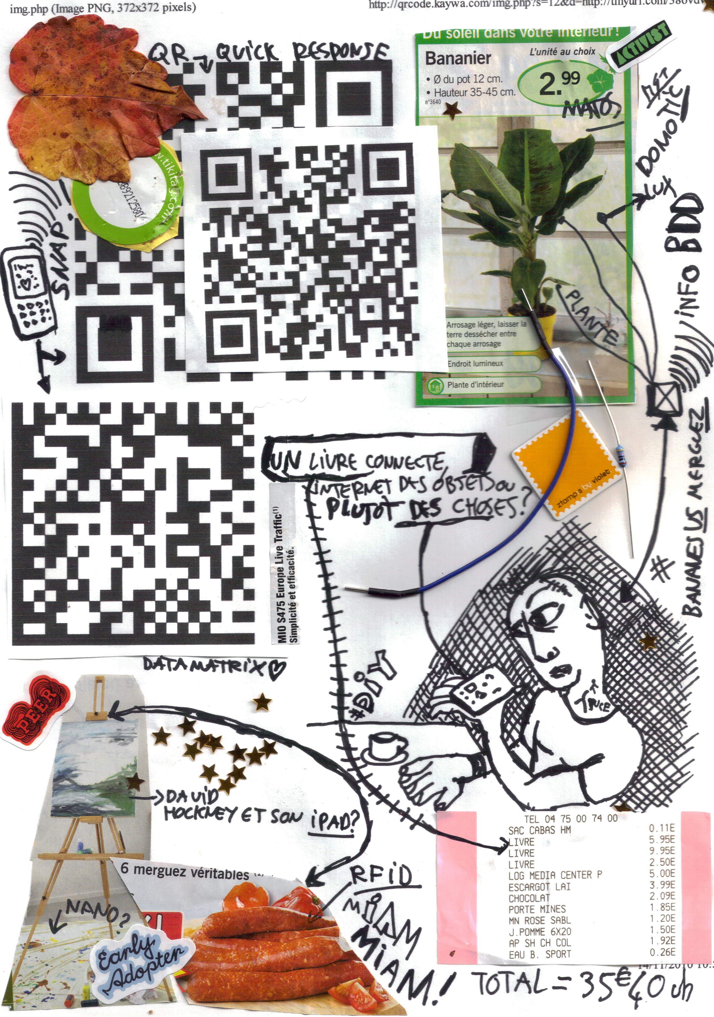 Internet of things collage